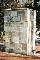 St. Katharine's St. Mark's Class Stones